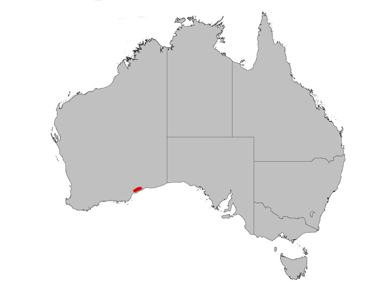 Distribution Map for Banksia epica